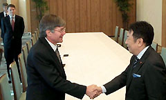 James Steinberg, Deputy Secretary of State, met with Yukio Edano, Chief Cabinet Secretary, at the Prime Minister's Official Residence in Chiyoda Ward, Tōkyō Metropolis on January 27, 2011.